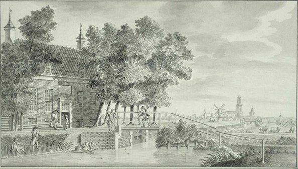 Jaffa inn near Utrecht